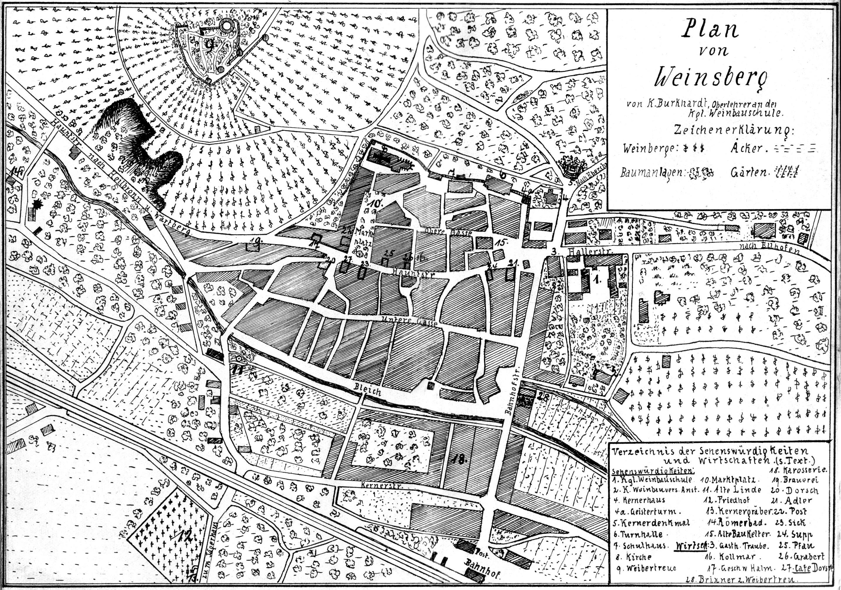 City map of Weinsberg, ca. 1914. Drawn by Karl Burkhardt († 4. April 1916).Bearbeitung von Plan Weinsberg 1914 von Karl Burkhardt.png von User:ArtMechanic. 01:10, 3. Mai 2006 ArtMechanic 2868 x 2012 (3496665 Byte)